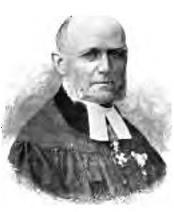 Karol Kuzmány